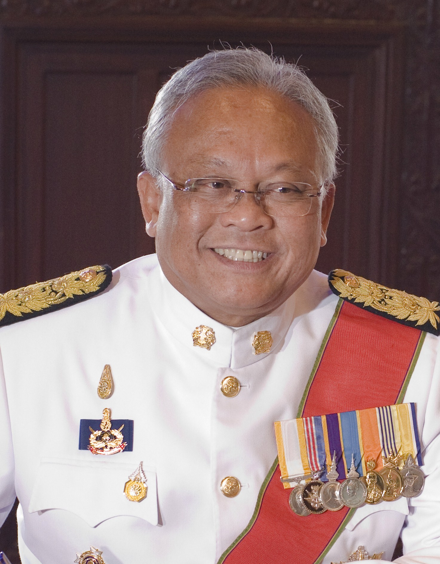 คณะรัฐมนตรีลงนามถวายพระพรชัยมงคลเนื่องในวันเฉลิมพระชนมพรรษาพระบาทสมเด็จพระเจ้าอยู่หัว ณ ห้องแดง ศาลาว่าการพระราชวังในพระบรมมหาราชวัง วันอาทิตย์ ที่ 5 ธันวาคม พ.ศ.2553 (Photographer attached to the Prime Minister of the Kingdom of Thailand : Peerapat Wimolrungkarat / พีรพัฒน์ วิมลรังครัตน์) @is50mm